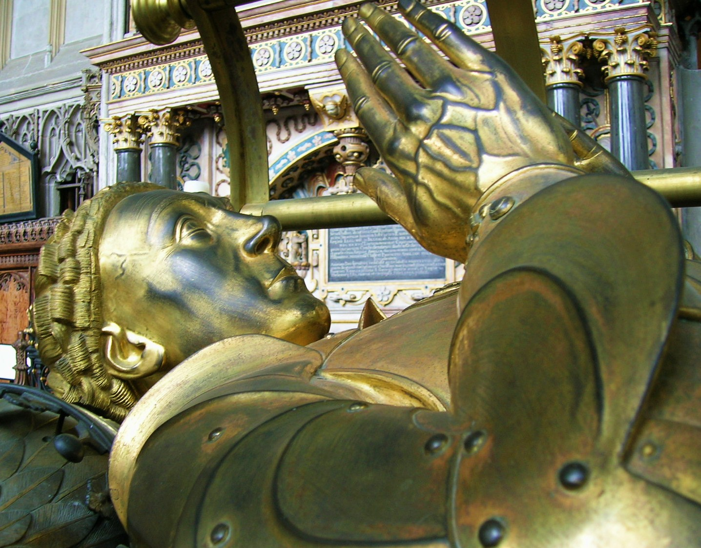 Effigy of Richard de Beauchamp, St Mary, Warwick